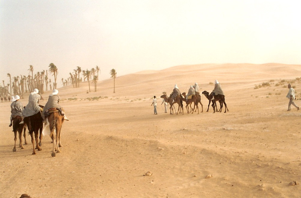 Camels in the desert near Douz in Tunisia